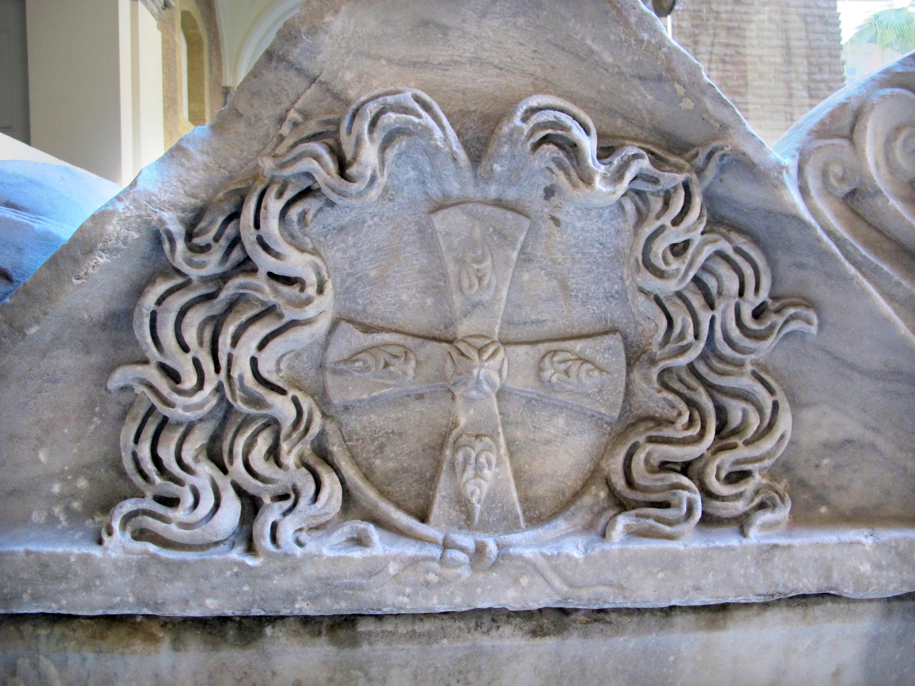 Museo Archeologico (Naples)